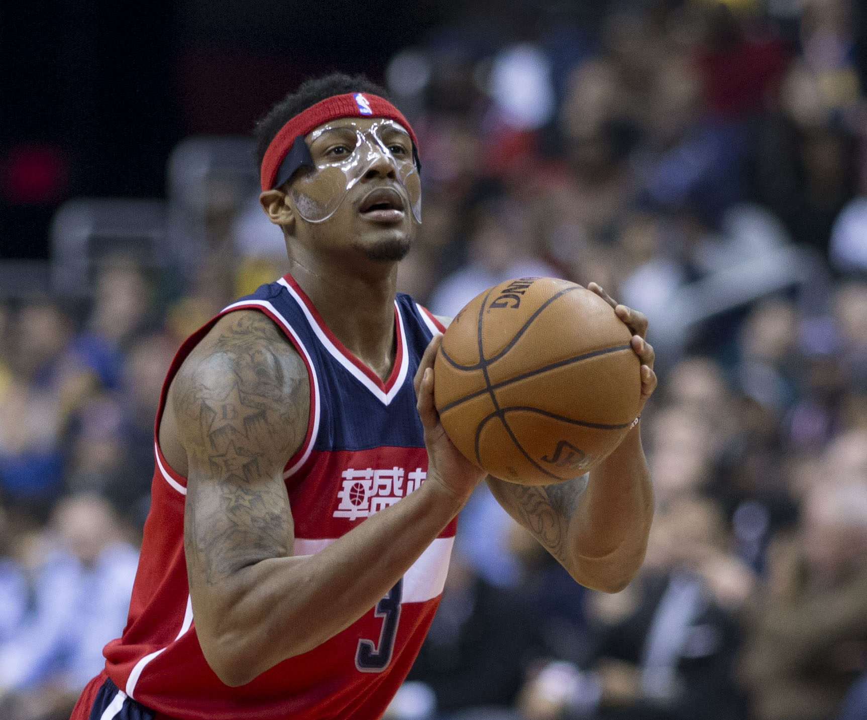 Warriors at Wizards 2/3/16